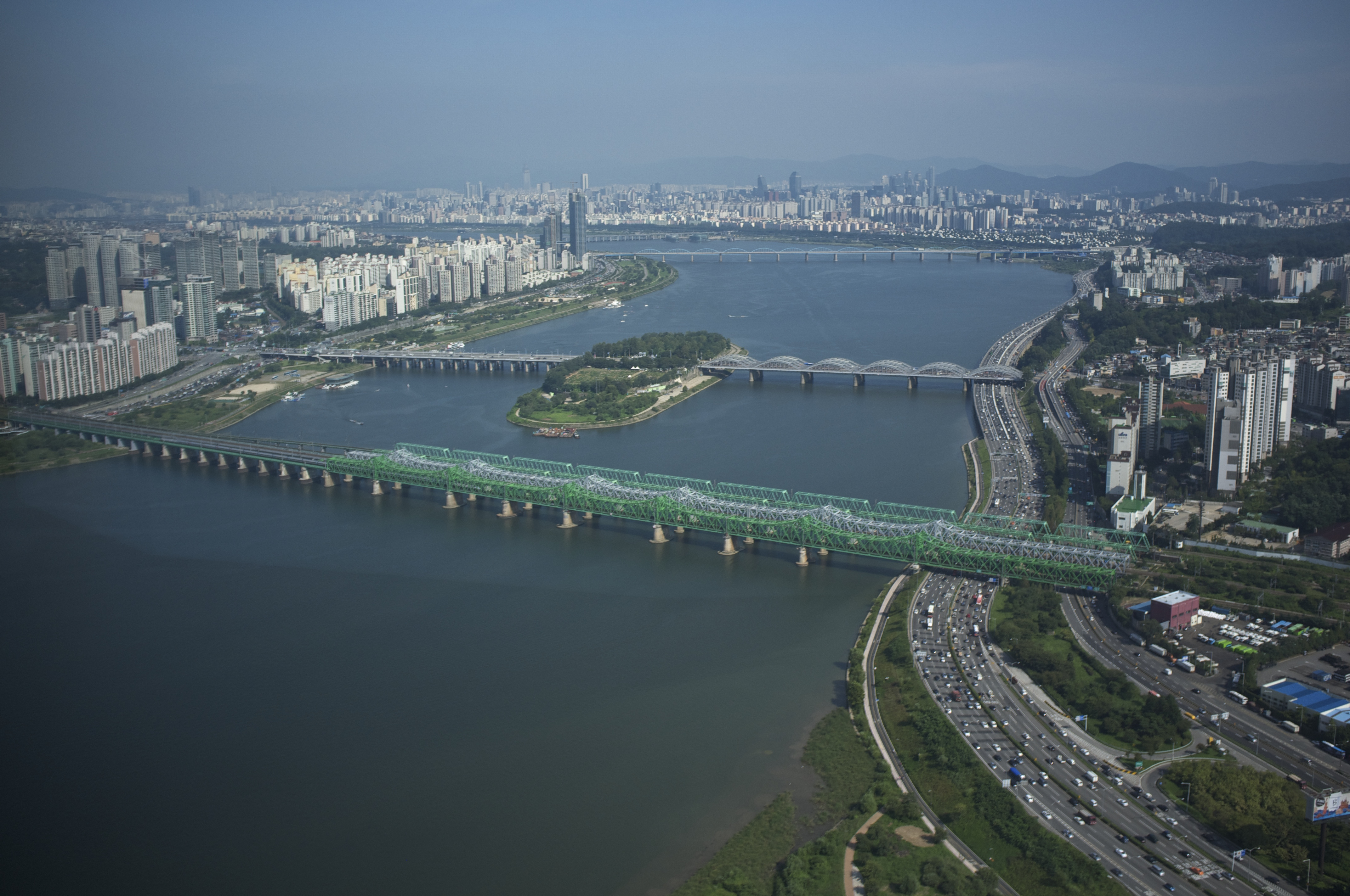 63 Building, Seoul